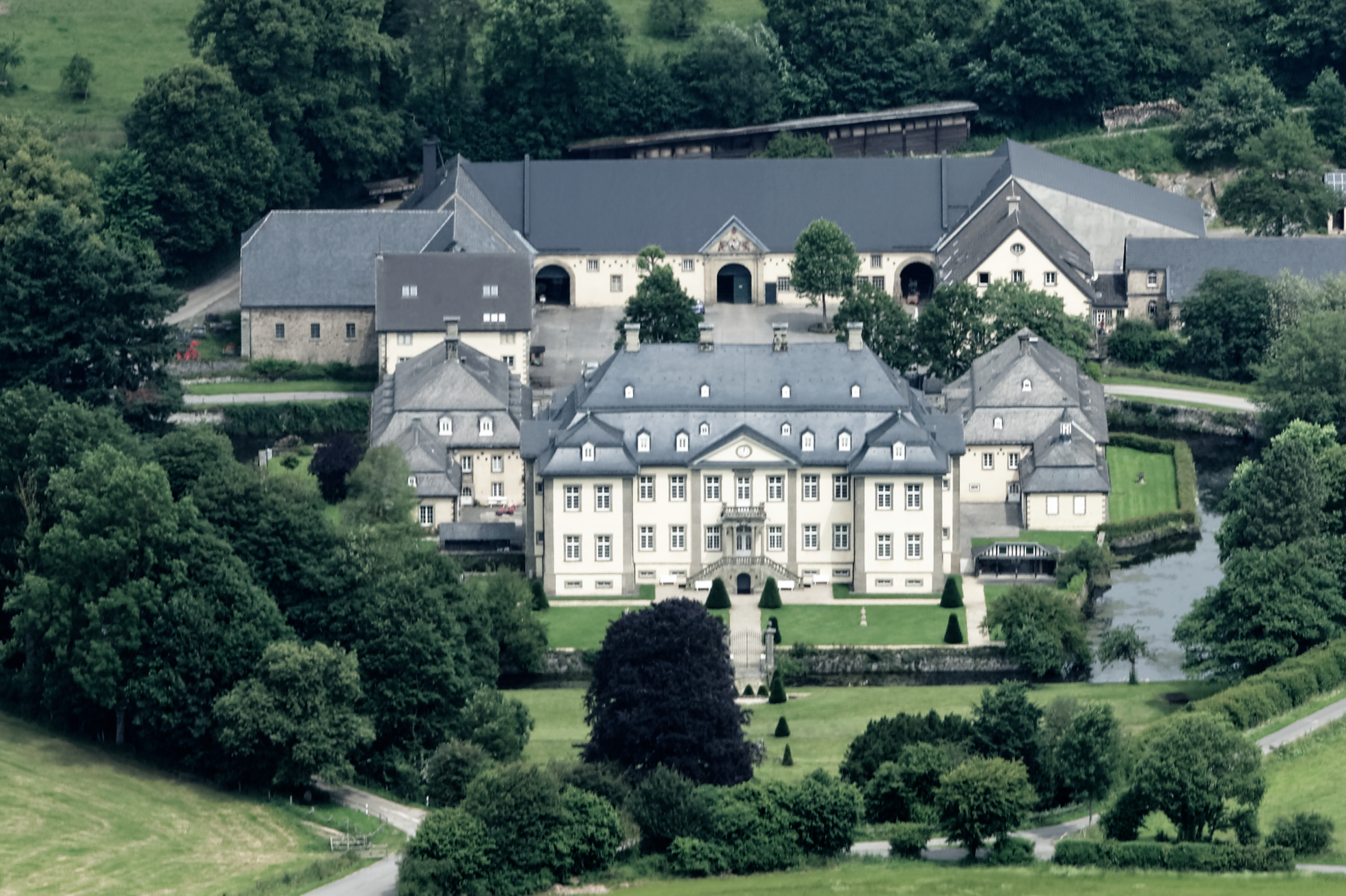 Schloss Körtlinghausen, Rüthen (Germany). Fotoflug Sauerland Nord 2125. The making of this document was supported by the Community-Budget of Wikimedia Germany.